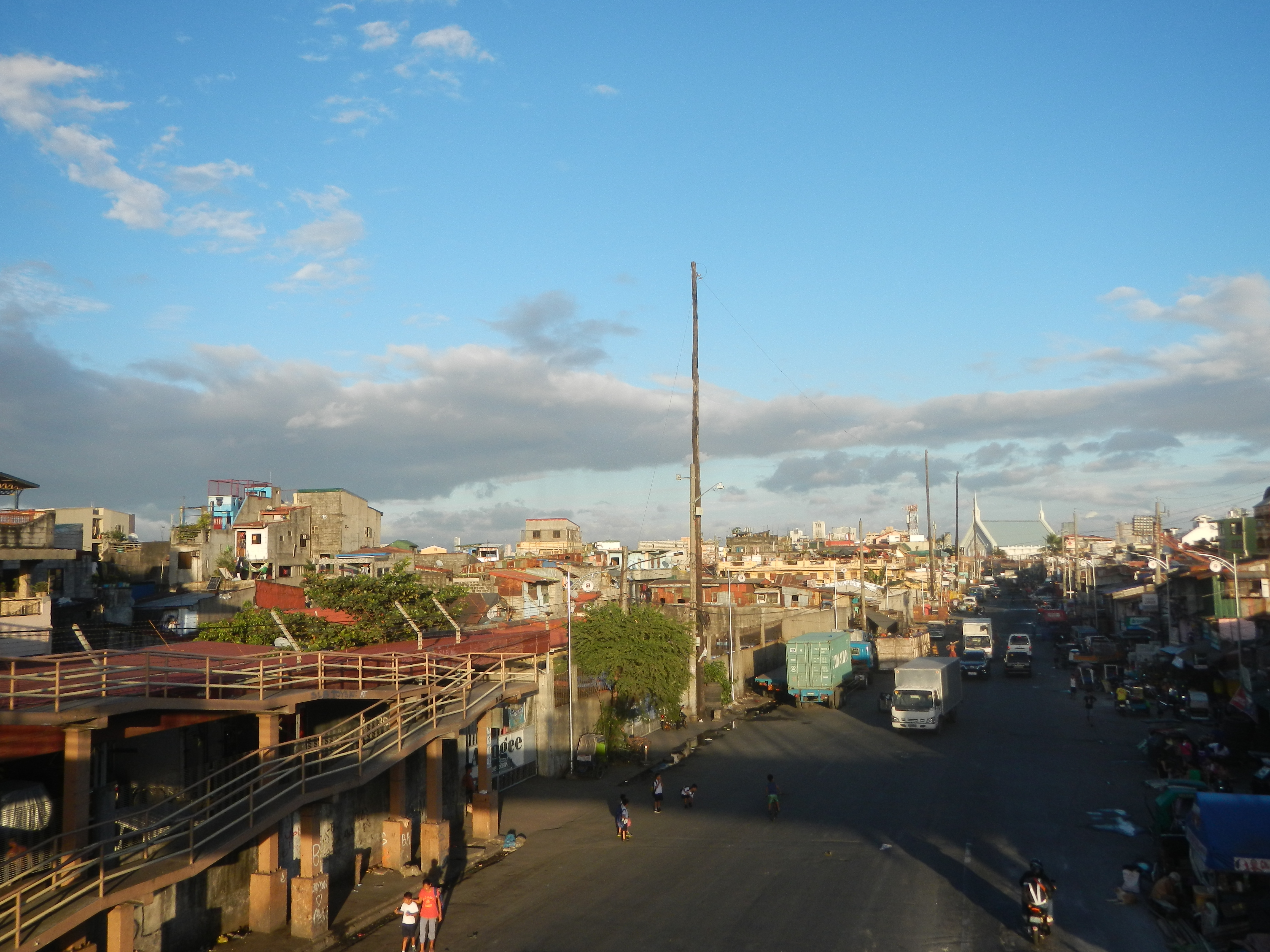 Circumferential Road 2 Pedestrian footbridge, Junction (C-2 Capulong Street - Marcos Road, Road 10, Tondo, Manila) Capulong Street (C-2 Road) (C-2) 14°37'13"N 120°57'54"E C-2 Road beside the Port of Manila Philippine Ports Authority Philippine Ports Authority, Port Management Office-NCR North TMO-Vitas Private Ports, Pier 18, Vitas, Marcos Road, Road 10, Tondo, Manila Barangays 91, 92, 93, 98, 99, 100, 101, 102, 103, 104, Zone 8, 105, 106, 107, 108, 109, Zone 9, District I, Vitas, Balut & Capulong, R-10 Bridge I (Estero de Vitas) 20 metric tons load limit Marcos Road or Radial Road 10 or R-10, Radial Road 10 (Manila) 14°36'35"N 120°57'29"E Radial Road 10 is a 6-10 lane in Legislative districts of Manila, North Bay Tondo, Manila, City of Manila Slums in Manila, Two esteros in Manila rehabilitated Vitas Street 14°37'31"N 120°57'46"E Estero de Vitas (Vitas Mouth) 14°37'60" N 120°58'1" E ~1m asl 23:15 PHT UTC/GMT+8 List of roads in Metro Manila Balut 14°38'2"N 120°57'44"E Gagalangin, Tondo 14°37'34"N 120°58'16"E in the List of barangays of Metro Manila, Legislative districts of Manila a) Barangays 94, 95, 96, 97, Zone 8, 133, Zone 11, District II, Tondo, Manila, to b) Barangays 161, Zone 14, 173, 174 and 179, Zone 14 District II, Gagalangin, Tondo, Manila, c) Barangays 172, Zone 15, District II, Gagalangin, Tondo, Manila d) Barangays 126 & 127, Zone 10, Balut, Tondo, Manila d) Barangays 129, 130, 131, Zone 11, 139, 140, Zone 12, District I, Balut, Tondo, Manila e) Barangay 128, Zone 10, Smokey Mountain, Tondo, Manila Tondo, Manila, City of Manila, surrounded by List of rivers and estuaries in Metro Manila (Note: Judge Florentino Floro, the owner, to repeat, Donor Florentino Floro of all these photos hereby donate gratuitously, freely and unconditionally all these photos to and for Wikimedia Commons, exclusively, for public use of the public domain, and again without any condition whatsoever).